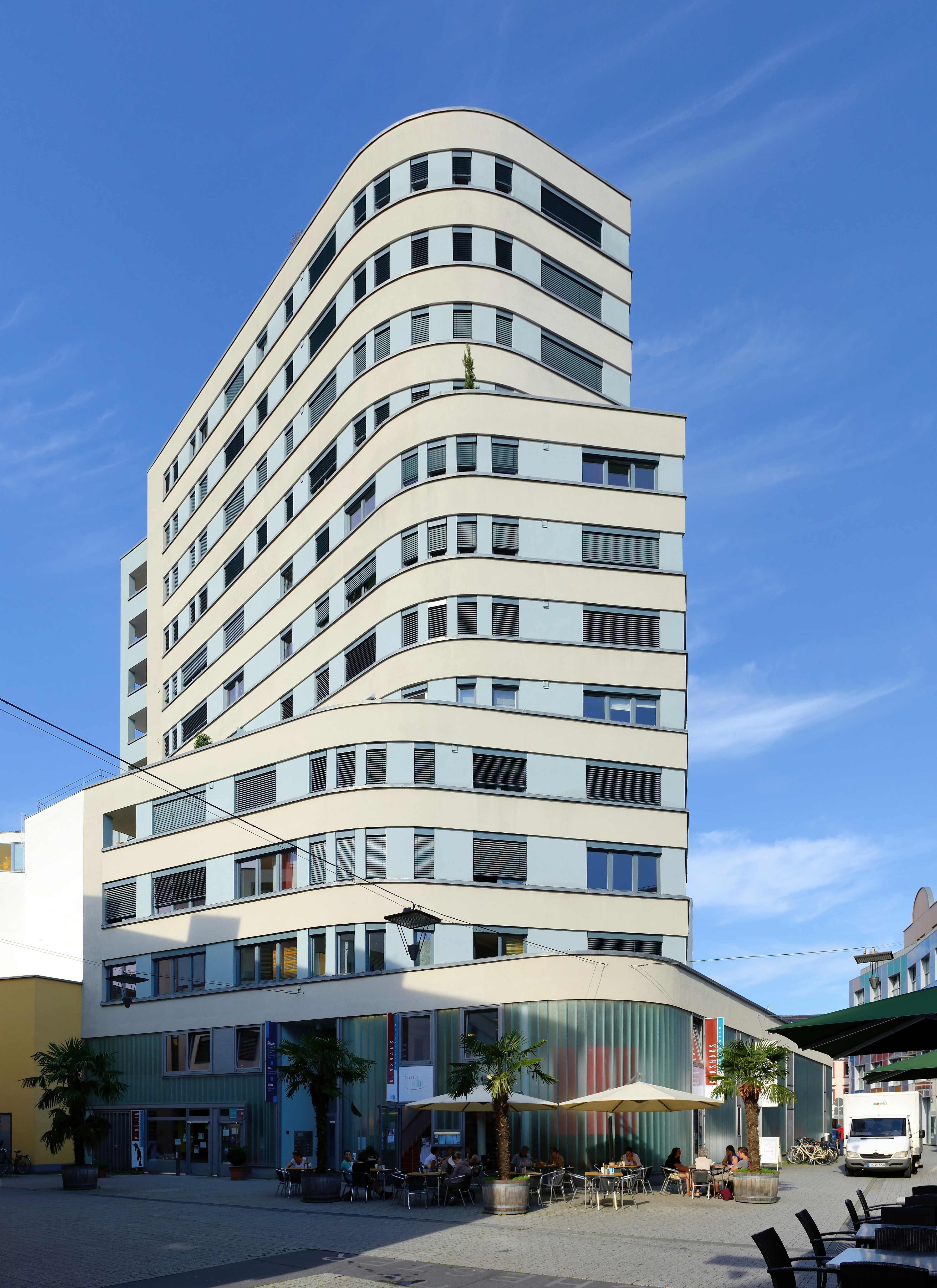 High rise building at Chesterplatz, Lörrach